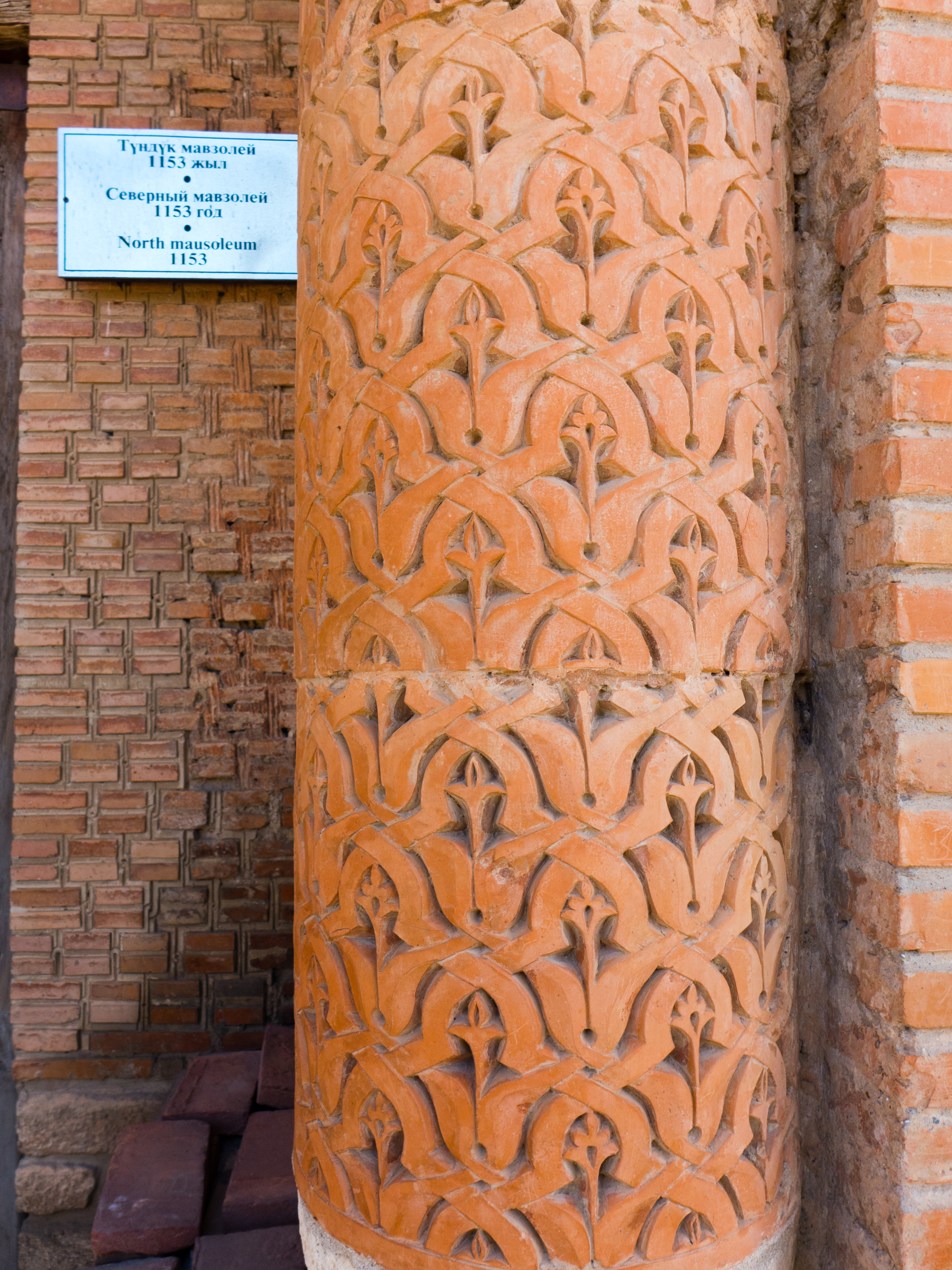 Architectural Details of the Karakhanid Mausoleum in Uzgen, Kyrgyzstan